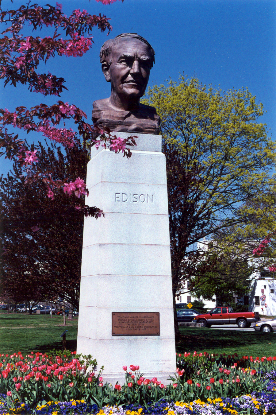 Source: Naval Research Laboratory Cite: Photo/Image provided courtesy of the Naval Research Laboratory. URL: Description: Bust of Thomas Edison at the front gate of the Naval Research Laboratory.